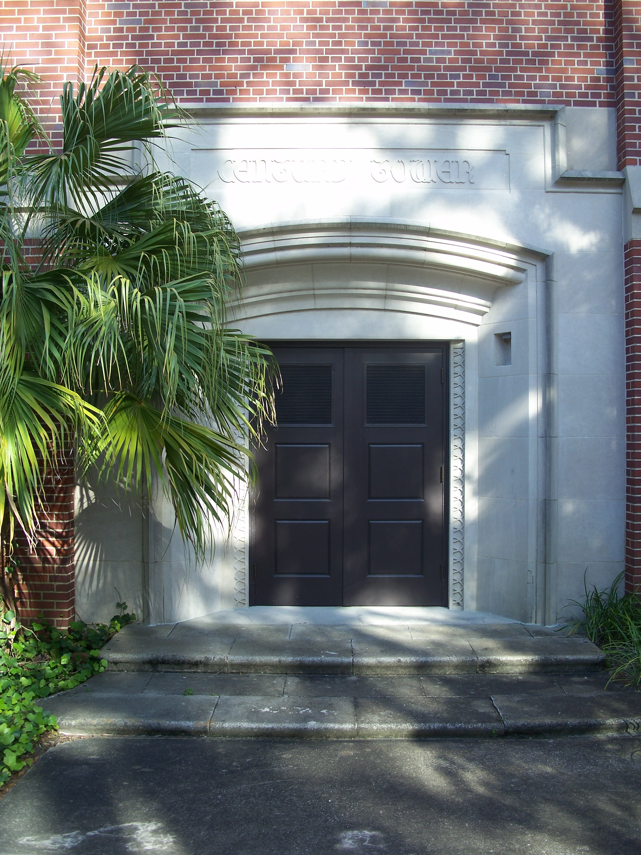 Gainesville, Florida: University of Florida: Door into Century Tower